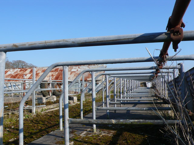 Derelict Milking Stalls, Ryme Intrinseca. These stalls are next to an old barn on Lakegate Lane on the road from Ryme Intrinseca to the main A37